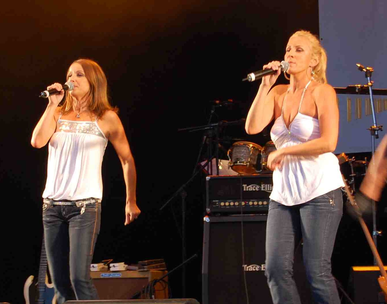 Bananarama, Audley End, Essex. L-R: Keren Woodward and Sara Dallin.